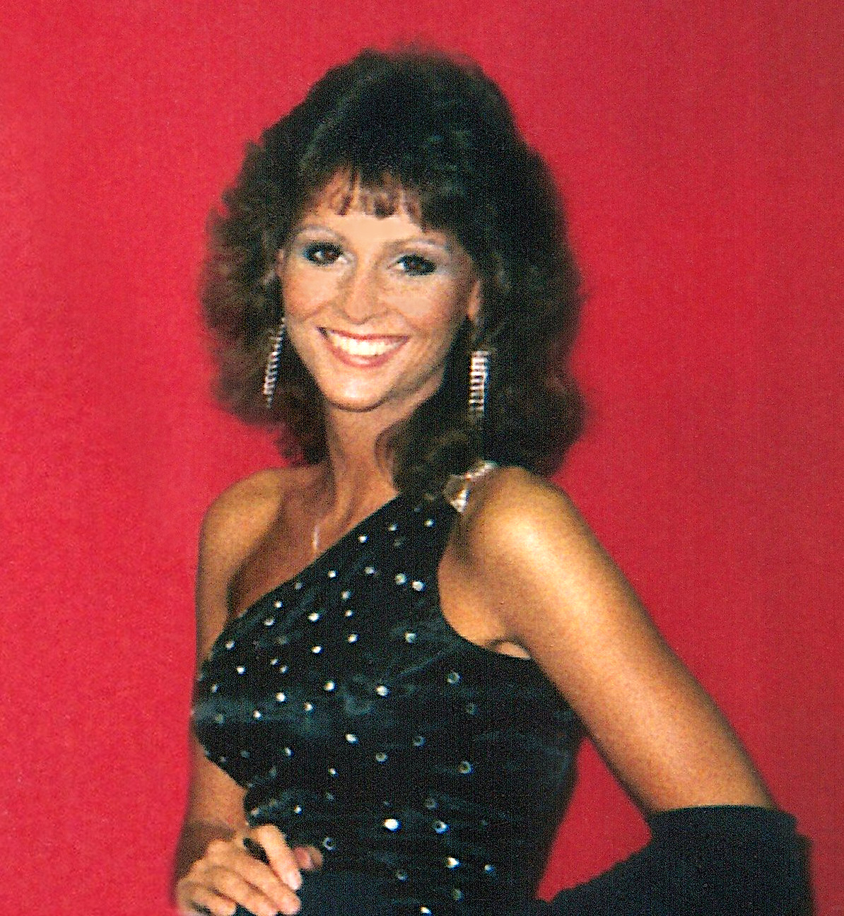 Miss Elizabeth in the summer of 1986 in Belleville Tobacco, Belleville, NJ. Cropped from original.